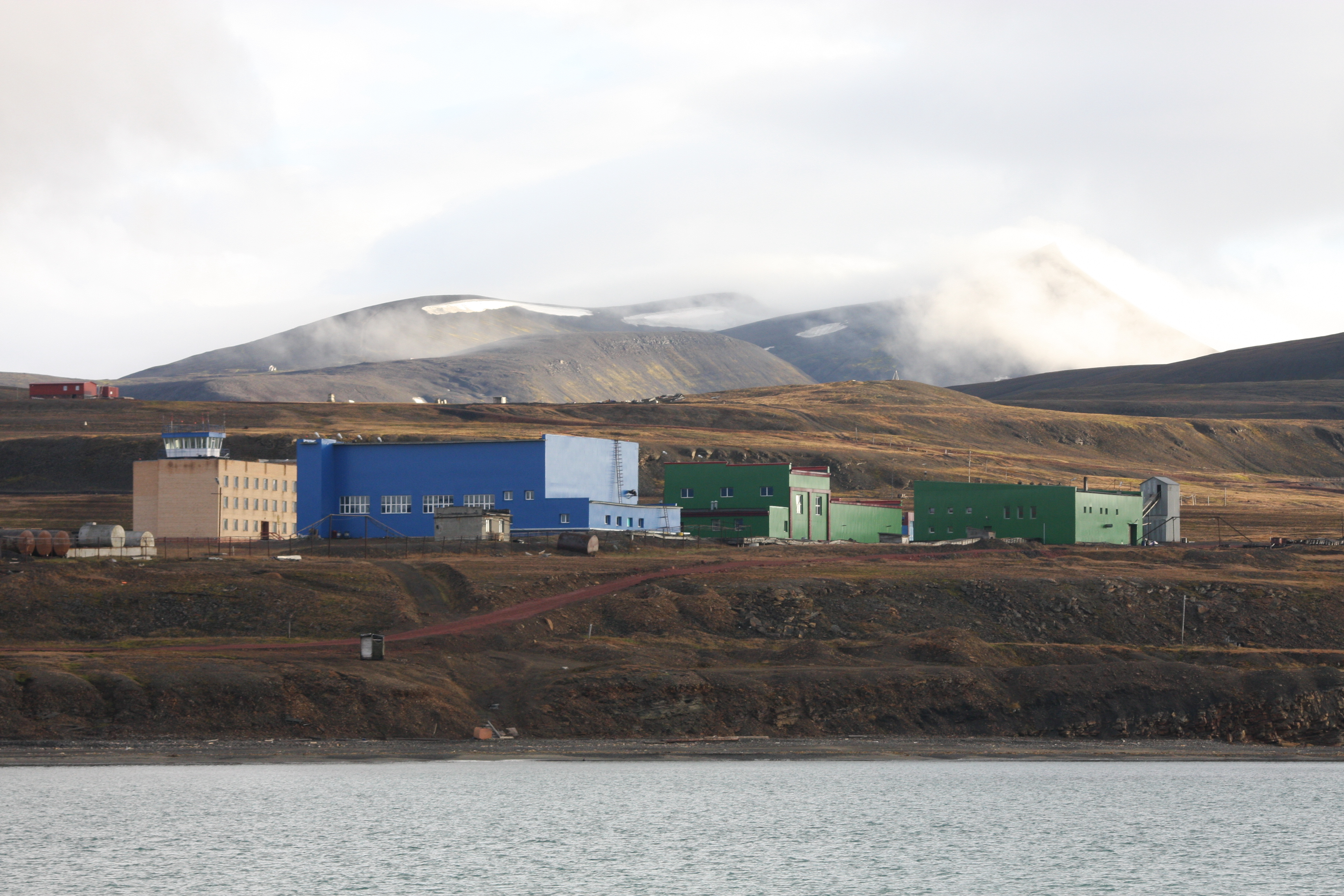 Heerodden north of Barentsburg. Russian heliport. Seen from Grönfjorden. Svalbard